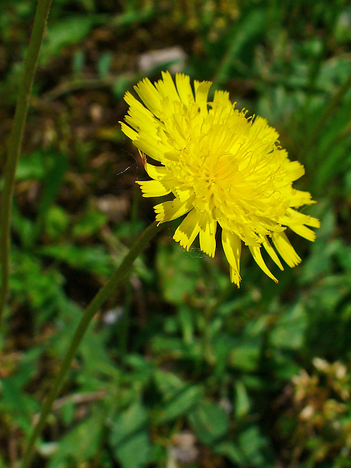 Hieracium pilosella, Asteraceae, Mouse-ear Hawkweed, inflorescence; Karlsruhe, Germany. The fresh, aerial parts are used in homeopathy as remedy: Hieracium pilosella (Hier-p.)